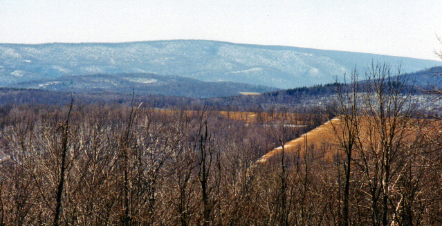 Views of Wills Mountain, taken from "Pennsylvania's Skyline Drive" Photo by: Joe Calzarette